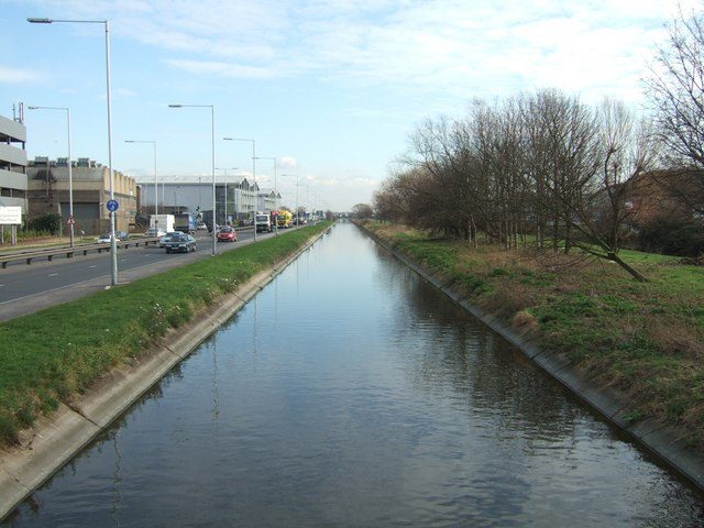 Duke of Northumberland's River Looking down the river from the footbridge. On the left is the Heathrow cargo area.